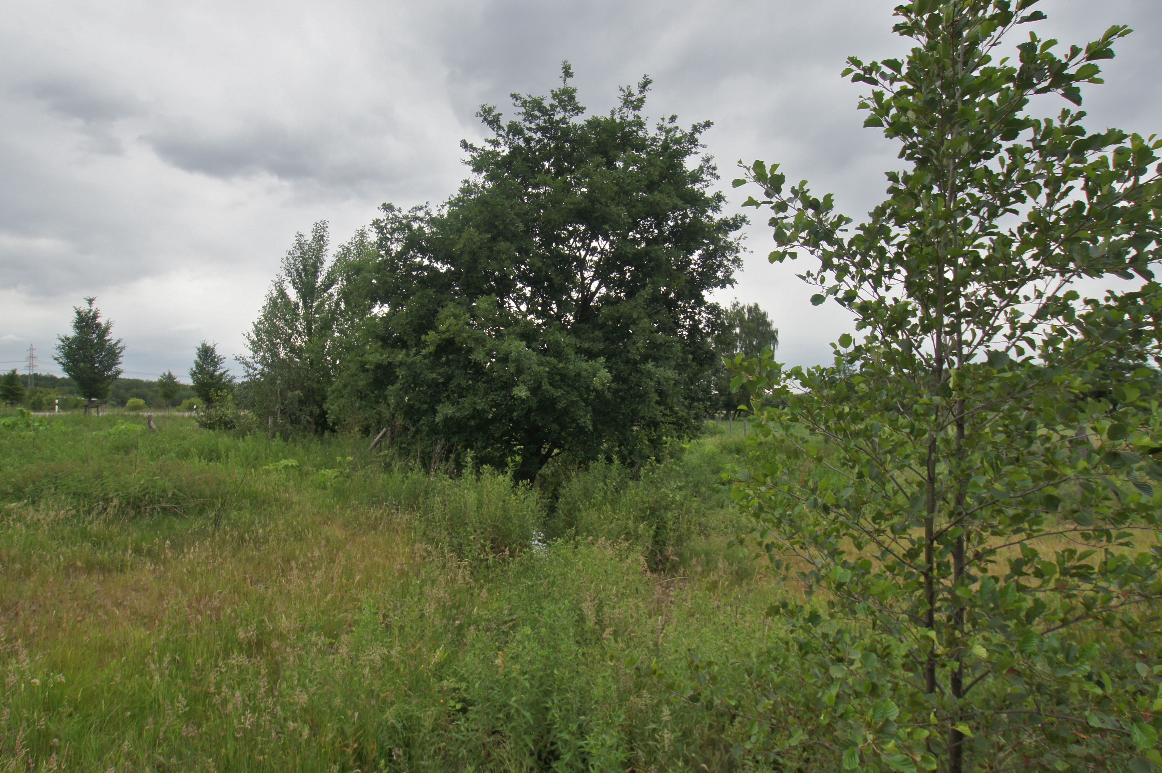 Barsbüttel, Germany: The Barsbek at the street am AKKU downstream